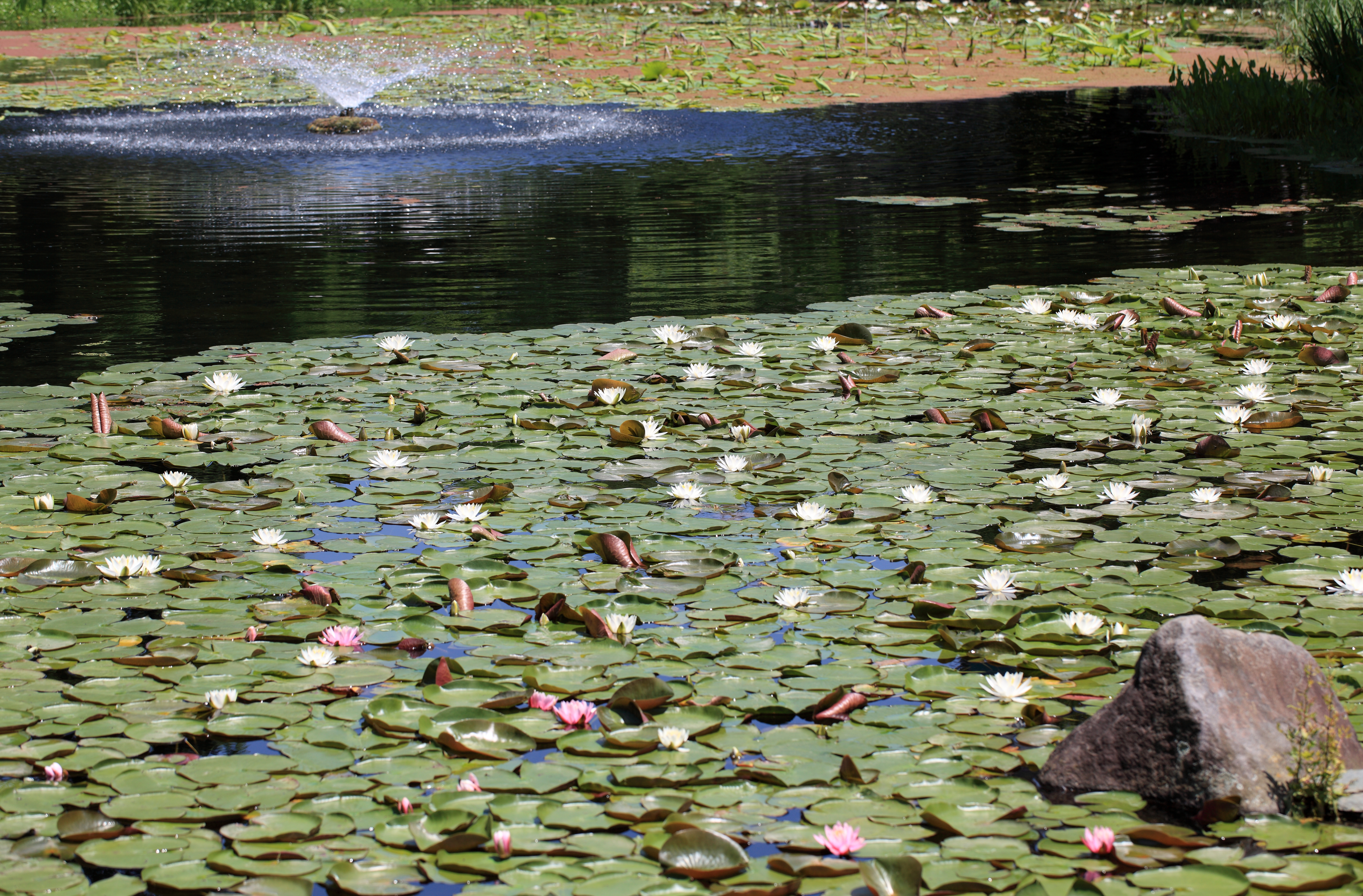 Keisei Rose Garden, Japan.